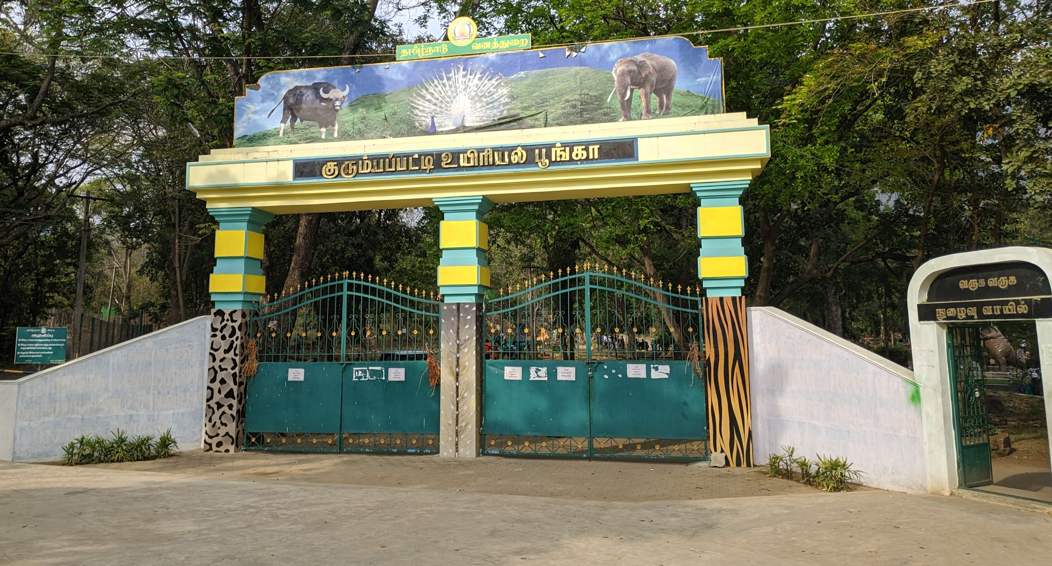 a good picture of zoo entrance in salem